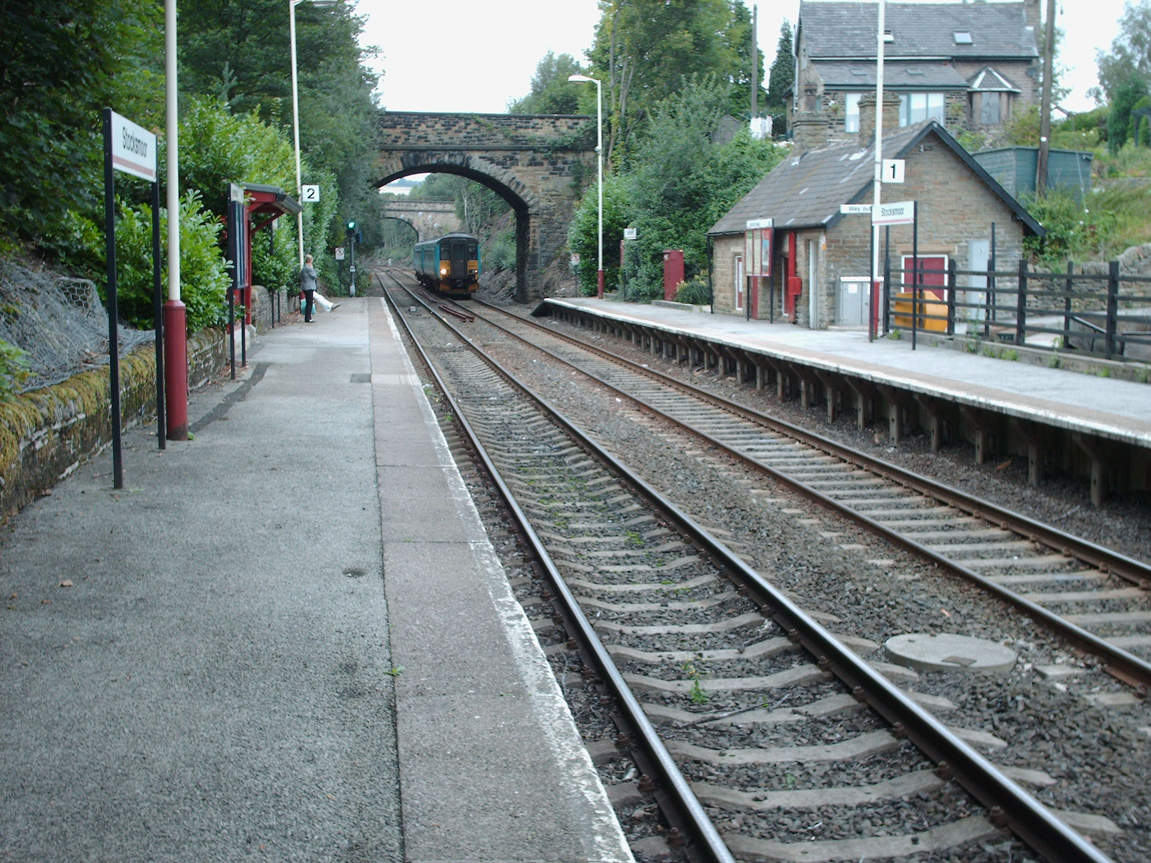 Stocksmoor railway station, West Yorkshire, England. 156473 arriving.